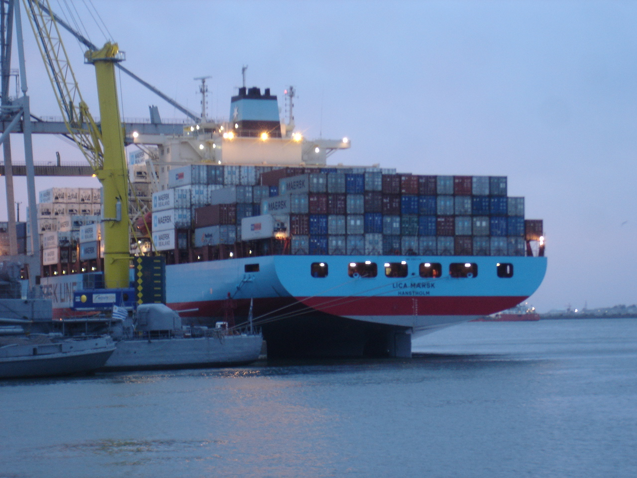 This photo was taken at Montevideo, Uruguay. Ships name: Lica Maersk IMO Number: 9190779 MMSI Number: 219981000 Callsign: OWAY2 Length: 266 m Beam: 35 m Information about Lica Maersk may be found at IMO 9190779. A ship can change name and flag state through time, but the IMO number remains the same through the hull's entire lifetime. As a result, it can be useful to identify a ship by using the IMO number.